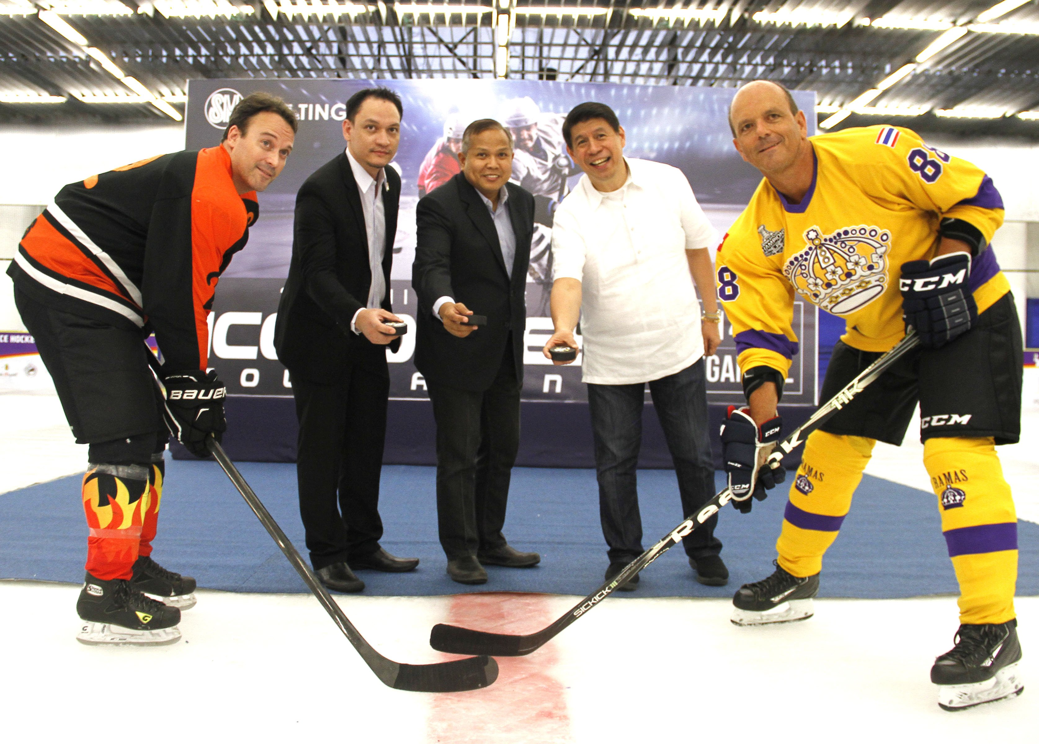 Francis Gautier, Tournament Director, Philippine Ice Hockey (2nd from Left), leads the opening of the Philippine International Ice Hockey Tournament 2017, on Thursday (June 15, 2017)at SM Megamall Ice Skating Rink. Also in photo from left: Michael Lambert Phytons, Team Captain; (from 3rd to left) Edgar Tejerero, President, SM Lifestyle and Entertainment Inc.; Chris Sy, President of Ice Hockey League Incorporated; and Eric Valez Ramas, Team Captain. (PNA photo by Rico H. Borja)